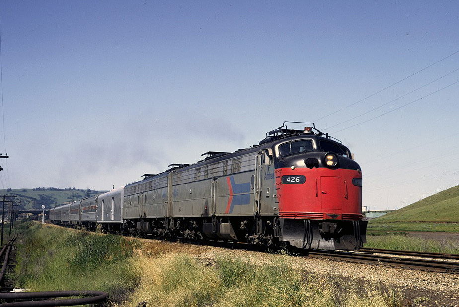 Amtrak #426 with the San Joaquin half a mile east of the approach to the Martinez-Benecia bridge in May 1974